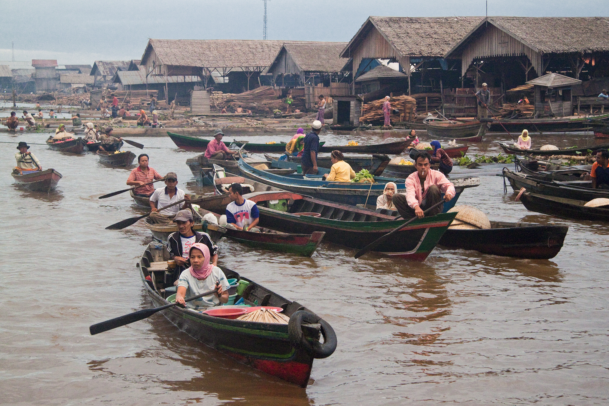 The Kuin River in Banjarmasin, South Kalimantan (Borneo)